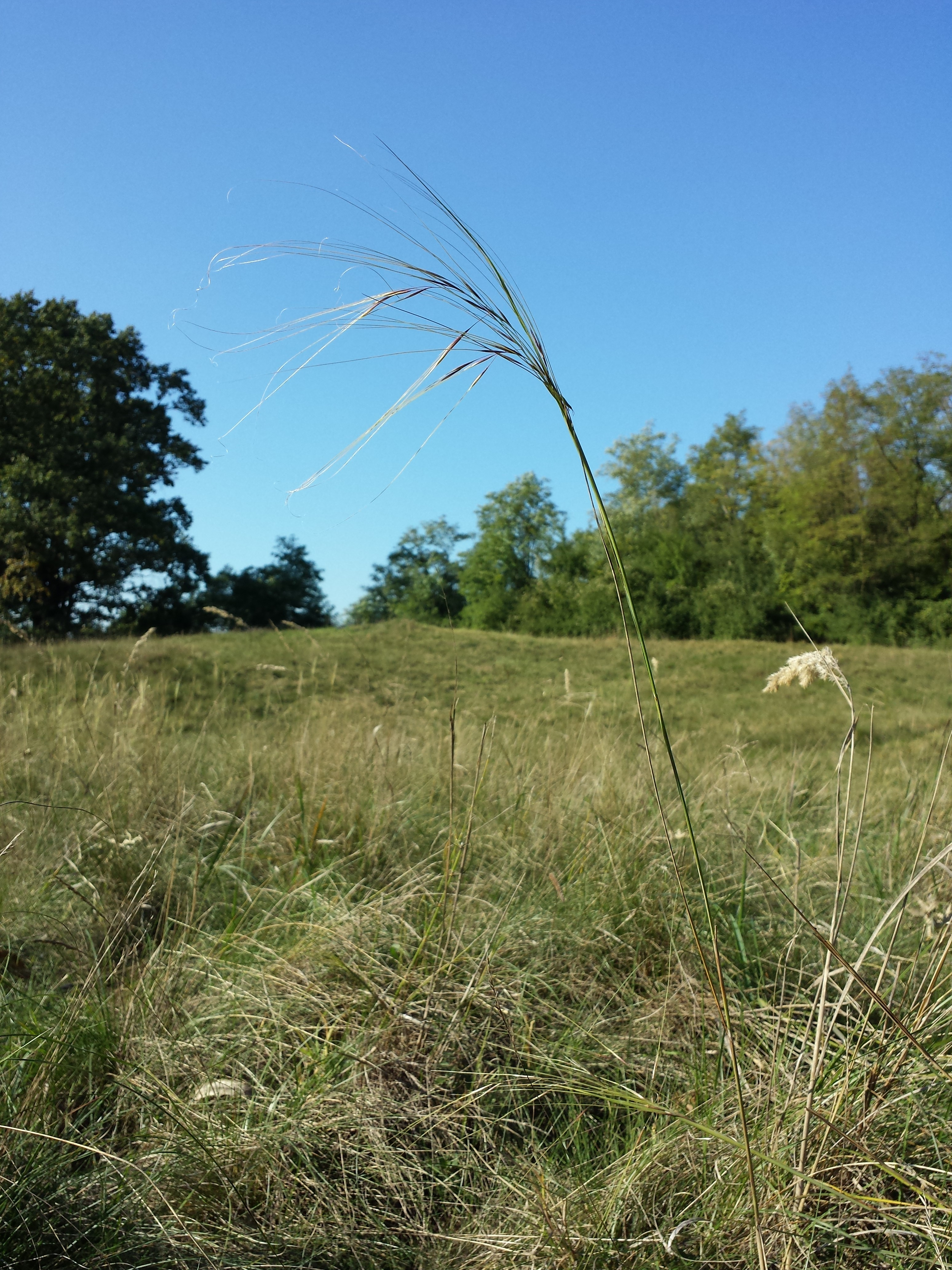 Habitus Taxonym: Stipa capillata ss Fischer et al. EfÖLS 2008 ISBN 978-3-85474-187-9 Location: nature reserve Lassee, district Gänserndorf, Lower Austria - ca. 145 m a.s.l. Habitat: semi-dry grassland This media shows the nature reserve in Lower Austria with the ID 6.